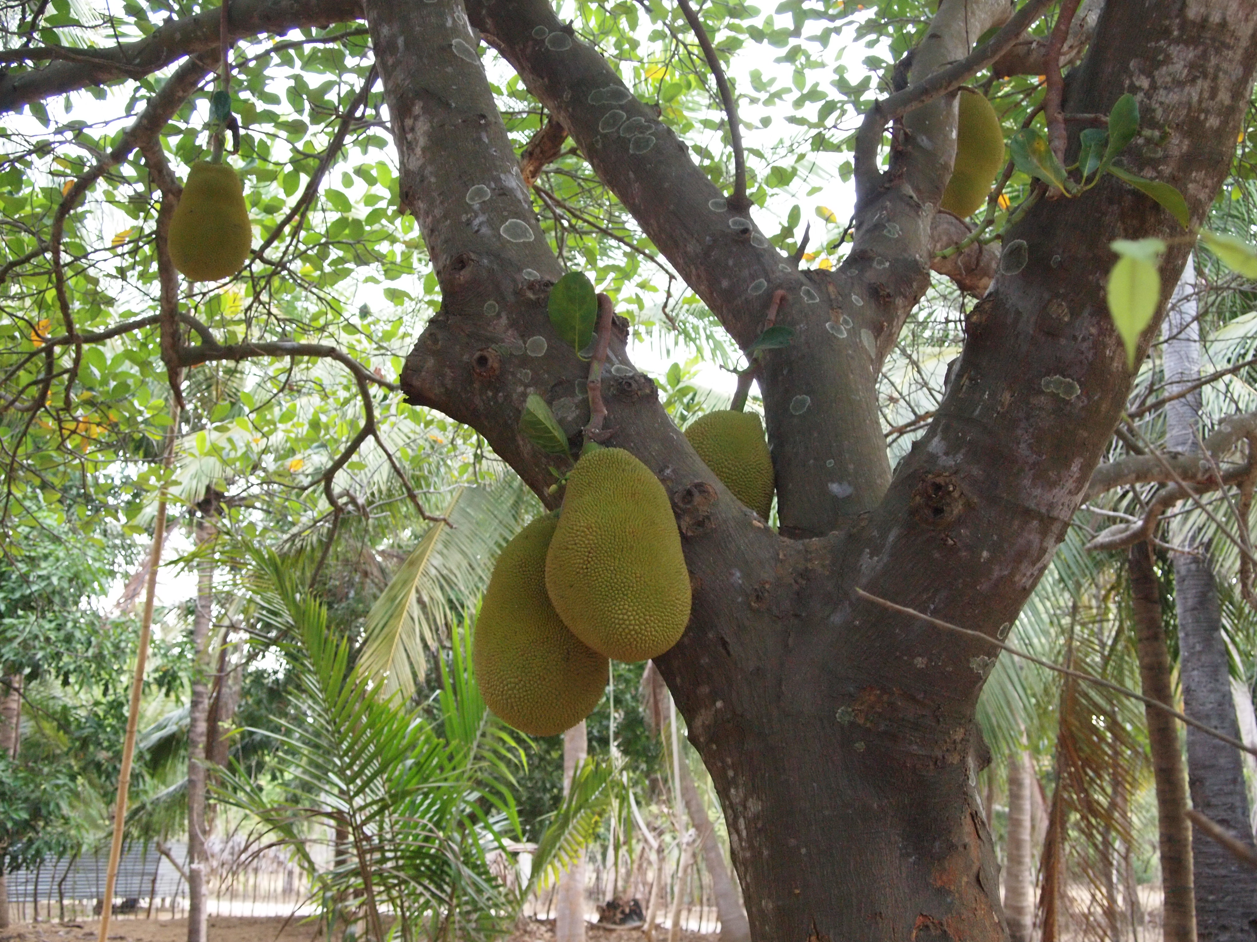 Jackfruits hanging in the branches